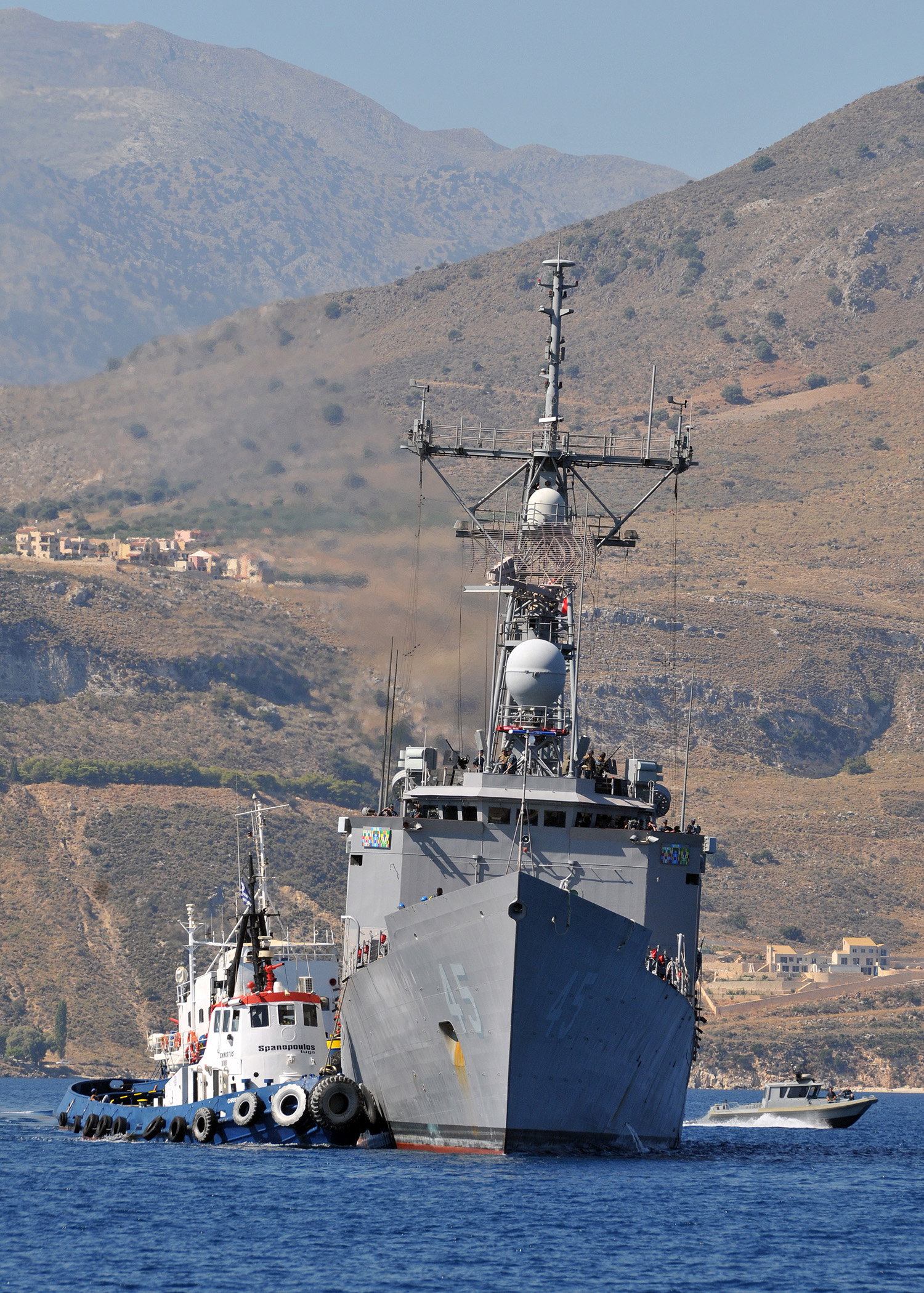 SOUDA BAY, Greece (Aug. 24, 2011) The Oliver Hazard Perry-class guided-missile frigate USS De Wert (FFG 45) arrives for a port visit to Greece's largest island of Crete. De Wert is homeported in Norfolk and is operating in the U.S. 6th Fleet area of responsibility. (U.S. Navy photo by Paul Farley/Released)